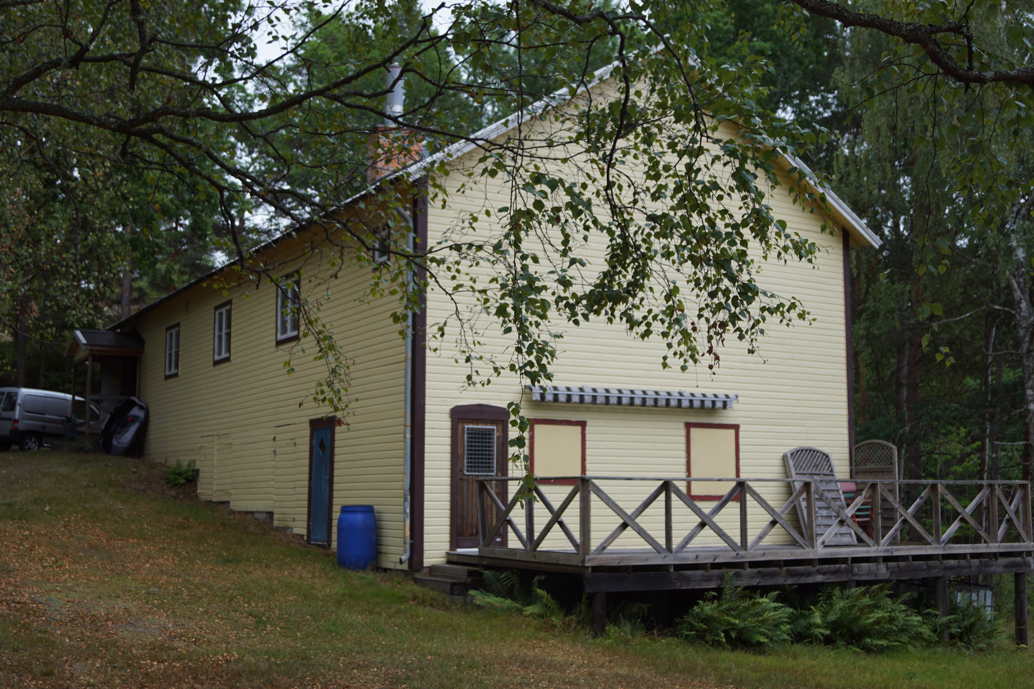 The shut down cinema in Hjorted, Västervik Municipality, Sweden.